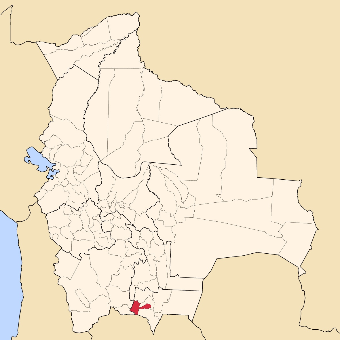 Map of Bolivia showing José María Avilés province, Tarija